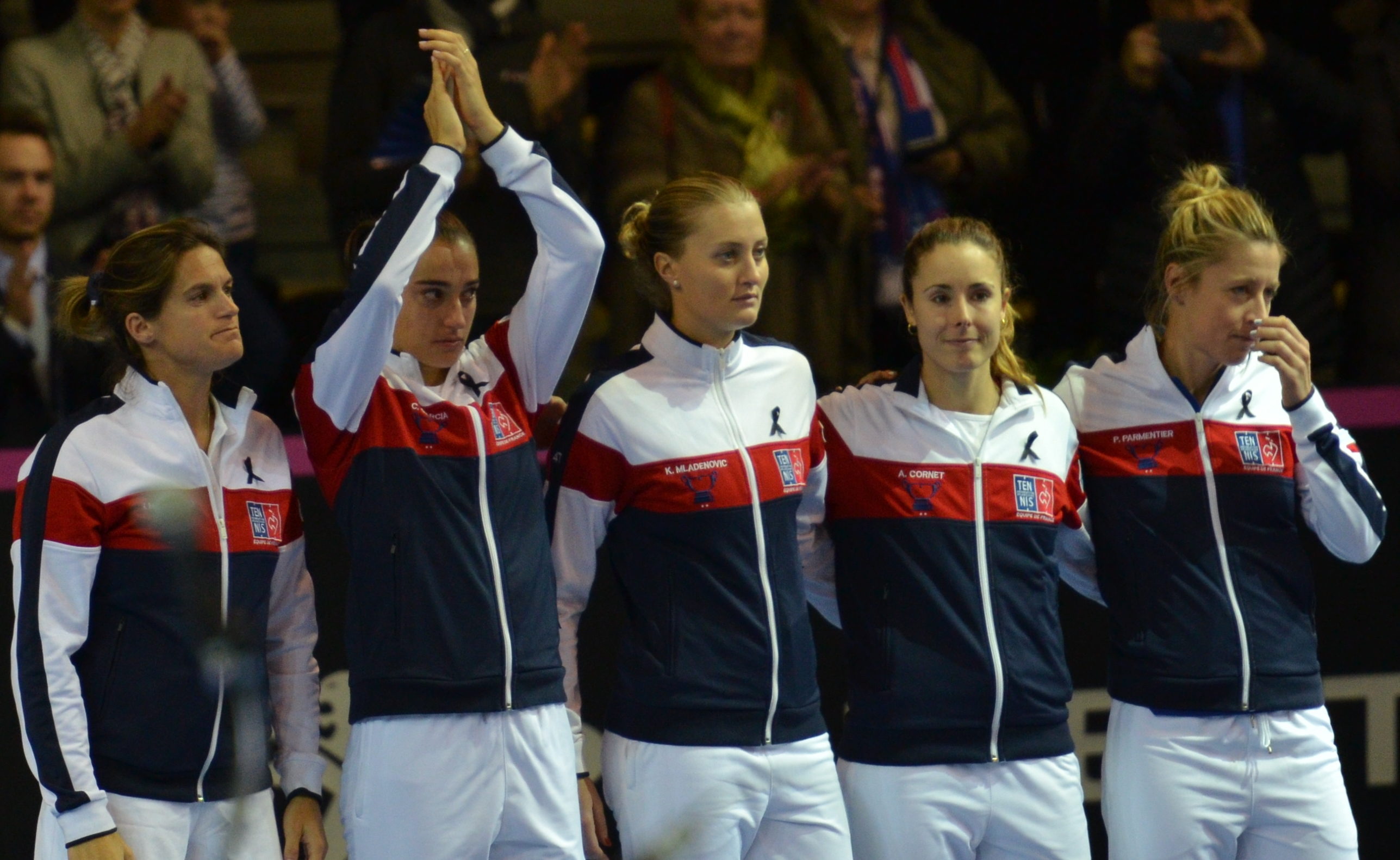 France_Fed_Cup_team at the World_Final_2016